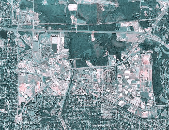 USGS digital orthophoto of Gunter Annex, formerly Gunter Air Force Base, in Alabama, United States